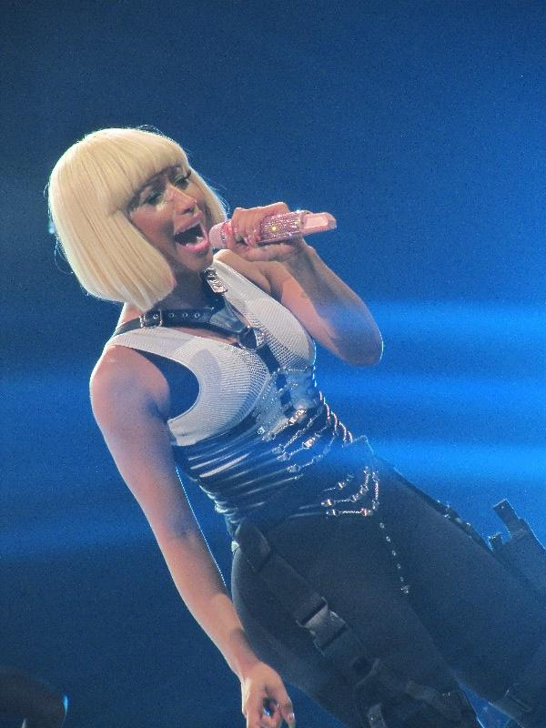 Nicki Minaj live on Femme Fatale Tour in 2011.